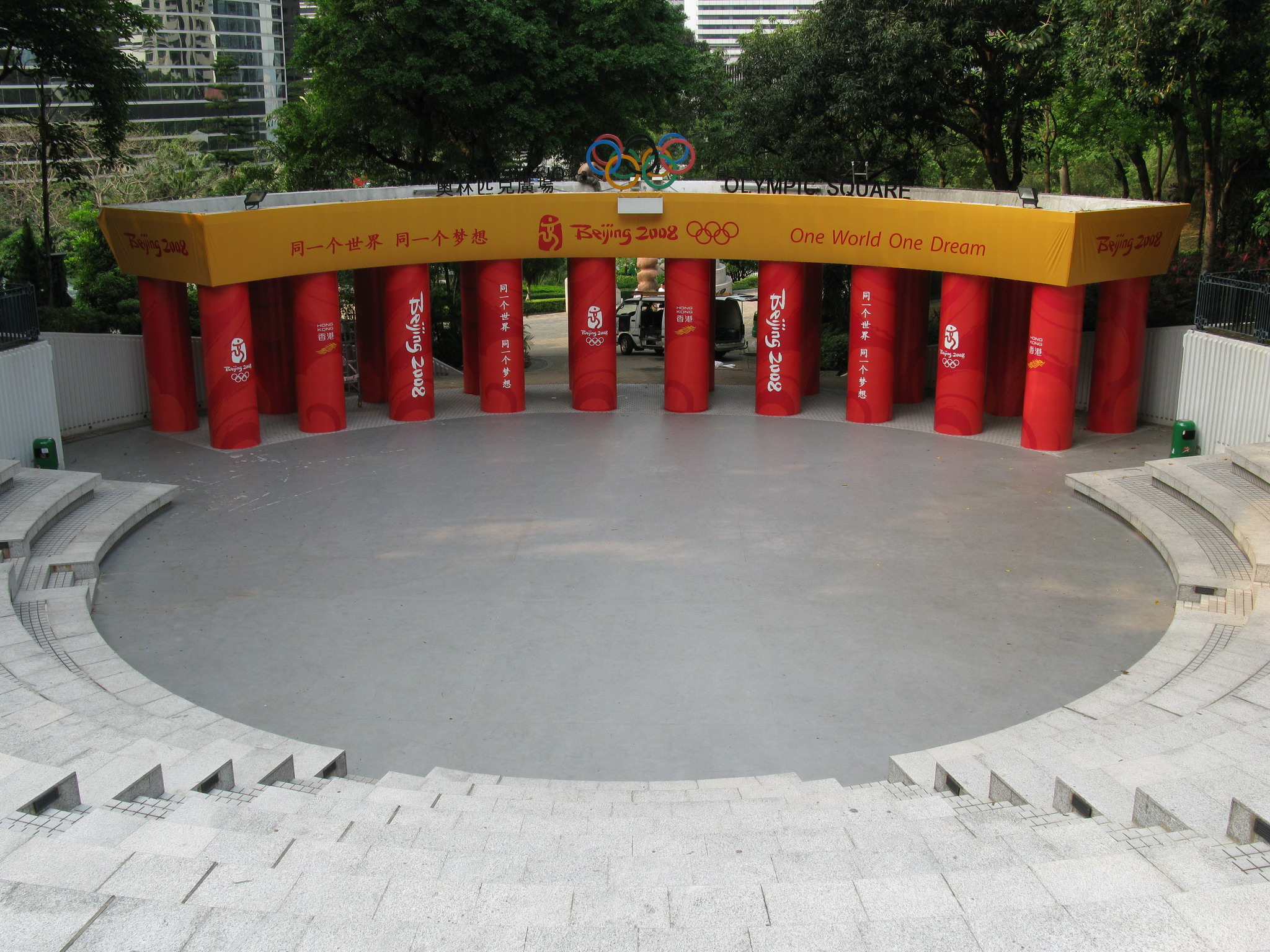 Olympic Square, Hong Kong Park